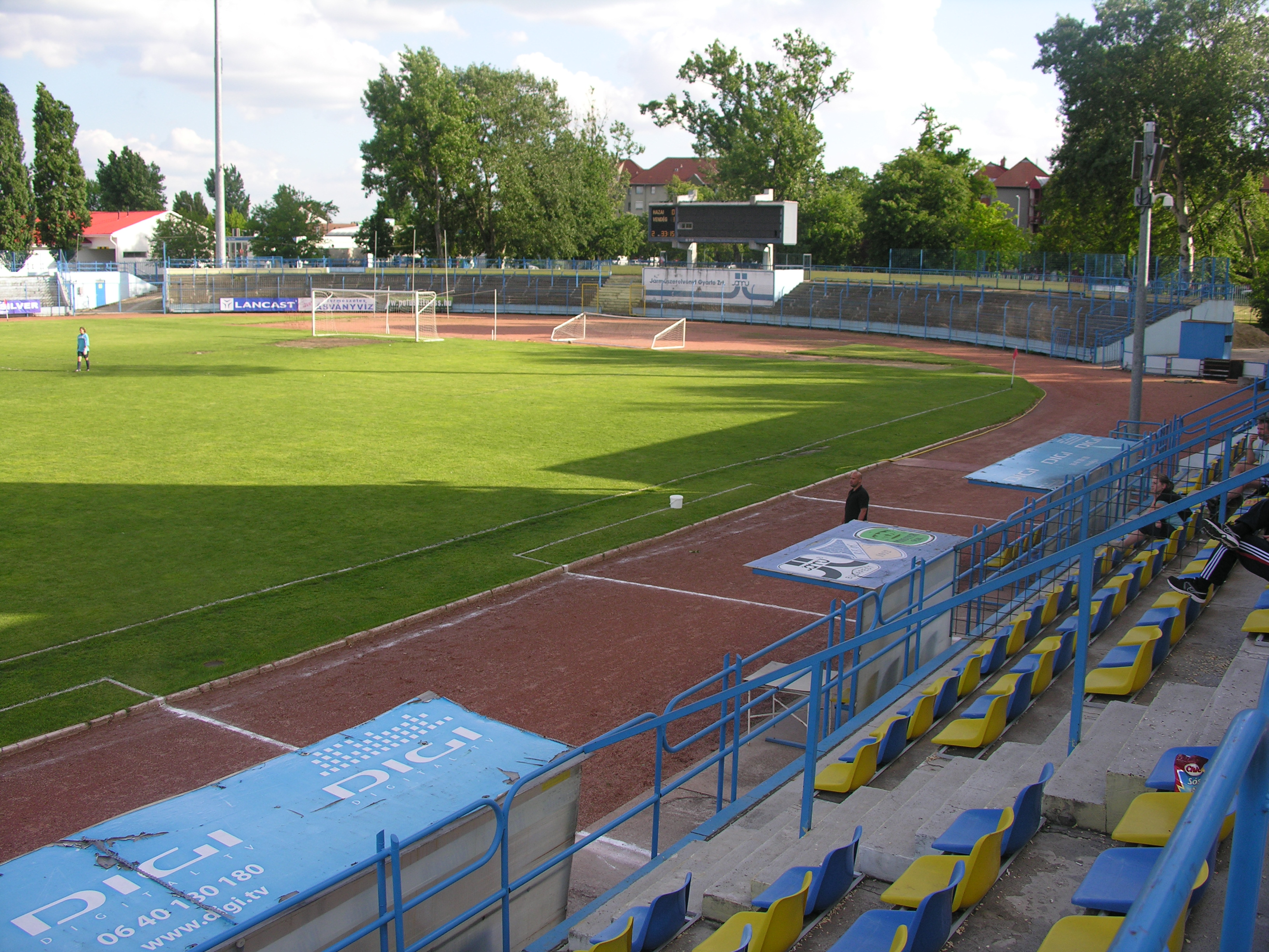 The Budai II László Stadion just before the Femina-Astra match, Budapest XV, Hungary